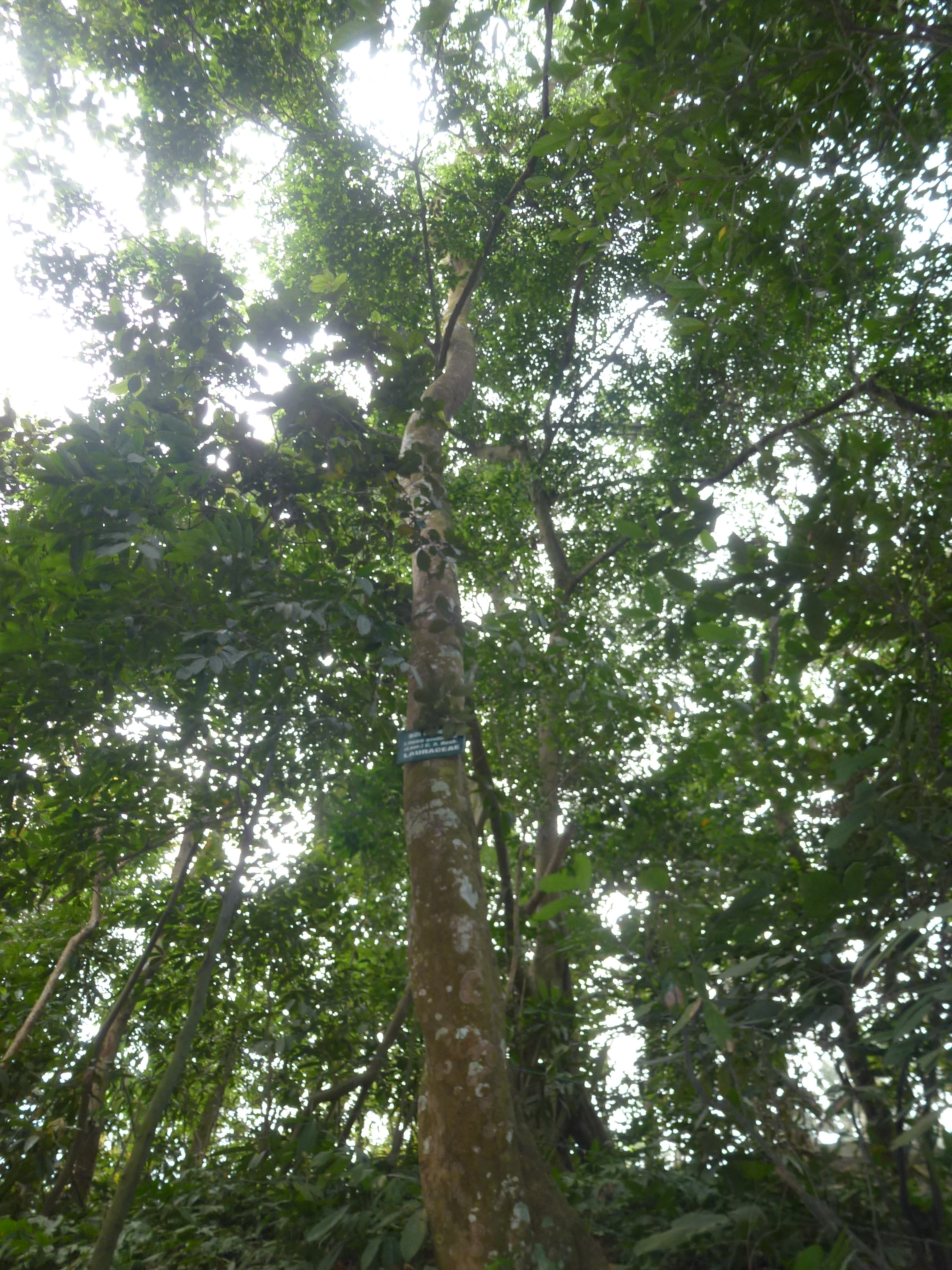 Litsea glutinosa at Hùng Temple, Vietnam